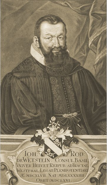 Wettstein, Johann Rudolf